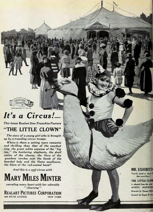 Ad for the American film The Little Clown (1921) with Mary Miles Minter, inside front cover of the March 20, 1921 Film Daily.